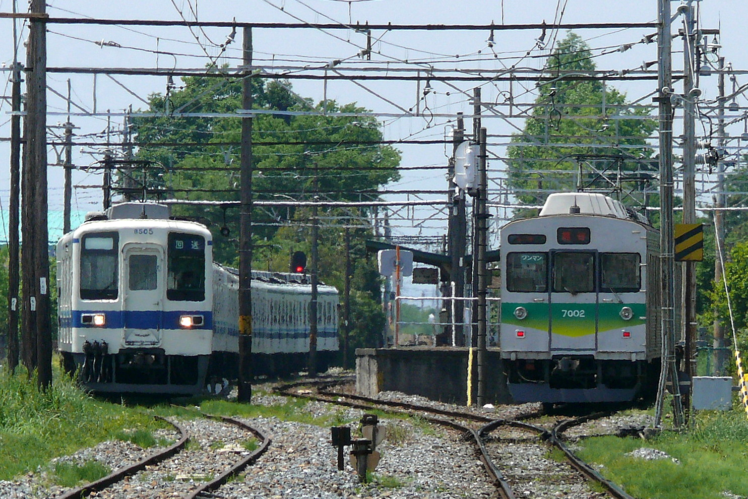 Bushu-Araki Station on the Chichibu Mainline, with Chichibu 7000 series EMU on a local working on the right, and a Tobu 8000 series EMU being transferred on the left